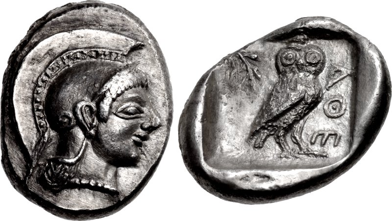 ATTICA, Athens. Circa 510 to 500-490 BC